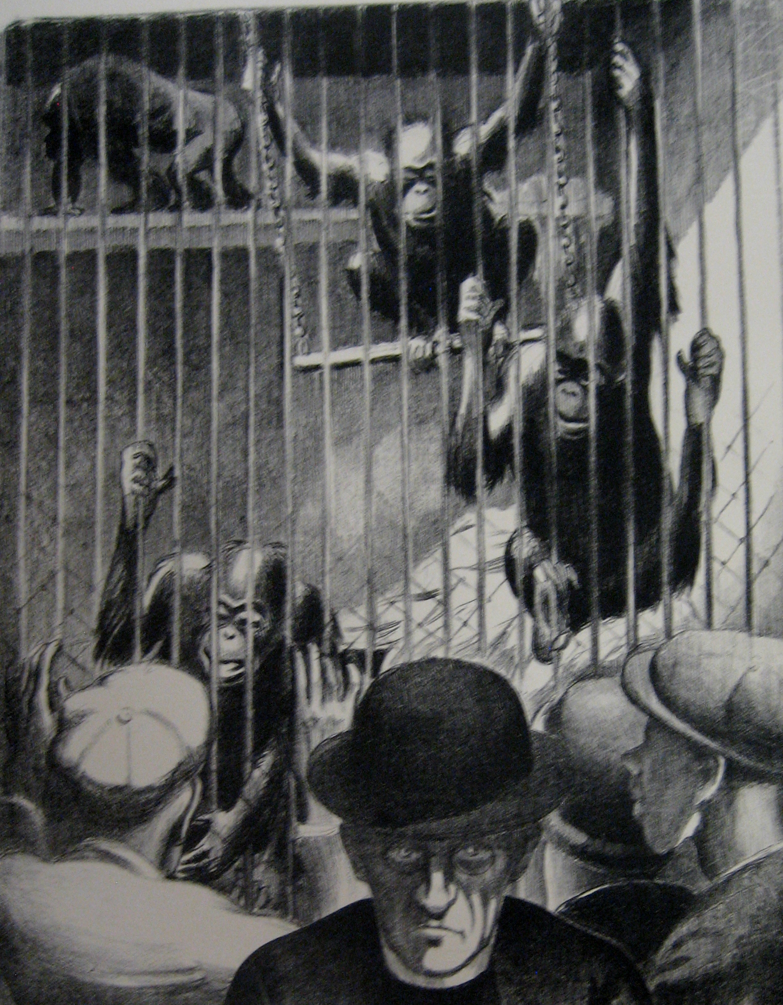 Mabel Dwight, The Brothers (Monkey House), 1928. lithograph, 31.7 x 25.1 cm, edition of 50